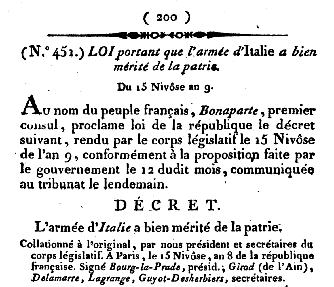 Lw and decree stating that the Amry of Italy has Bien mérité de la Patrie